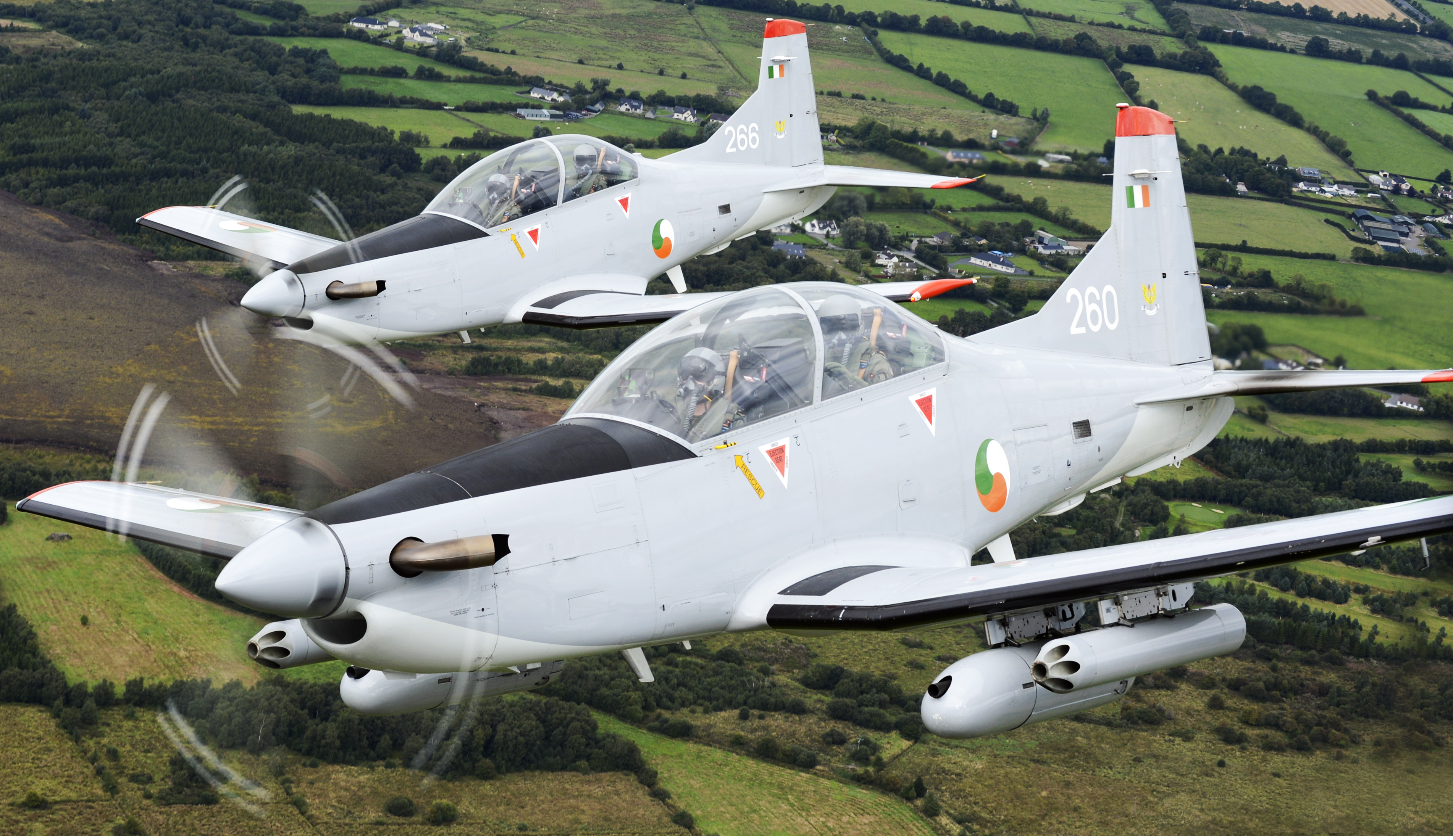 Pilatus PC-9 of the Irish Air Corp flying in formation